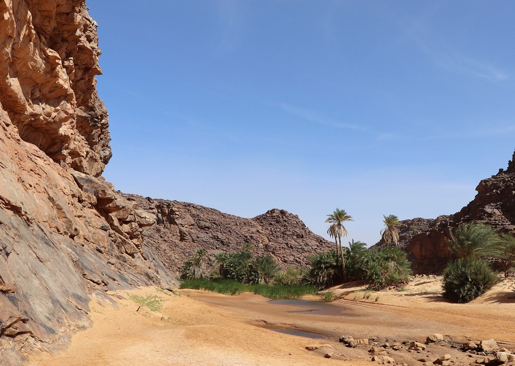 Guelta of Amazmaz